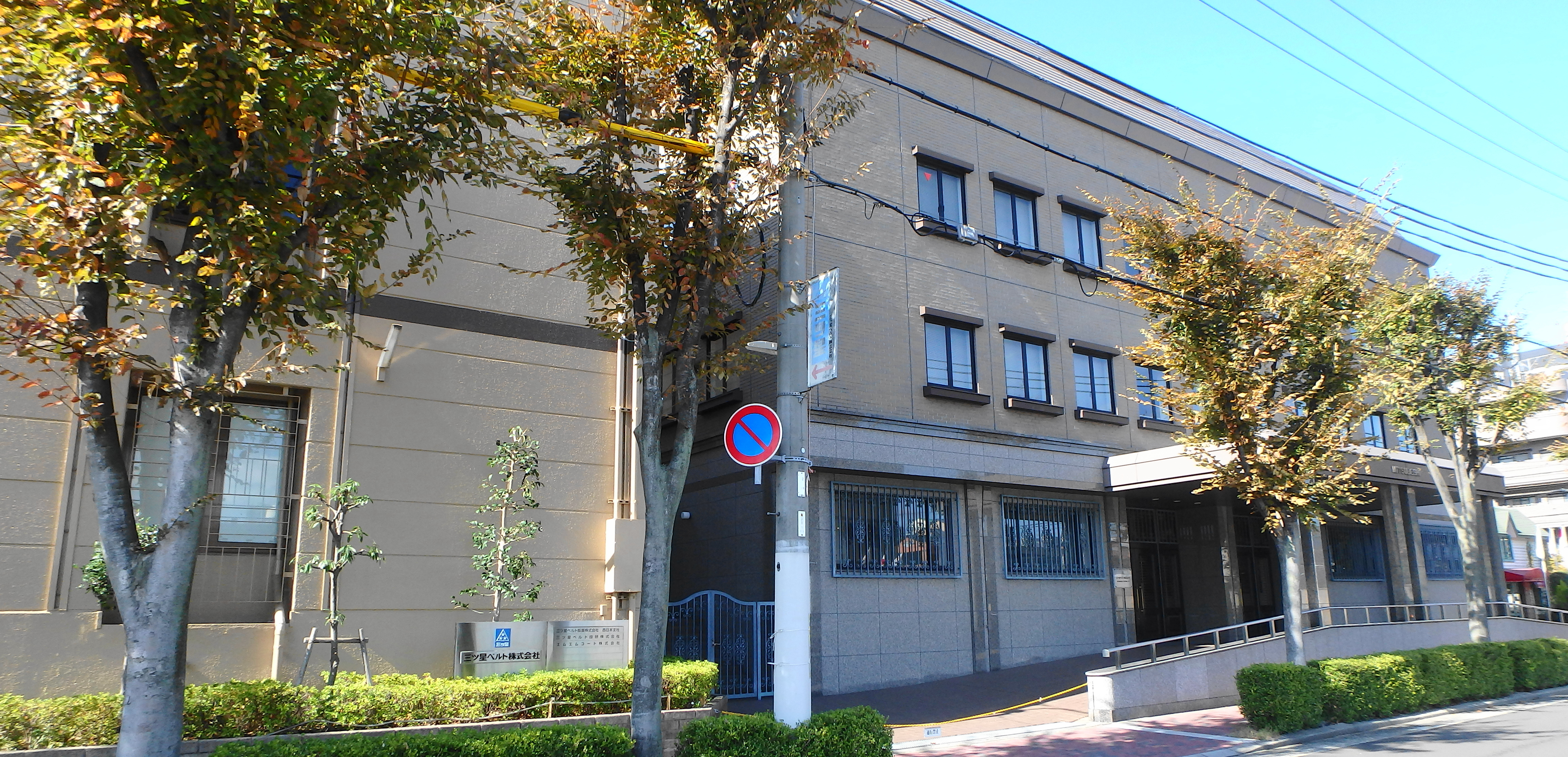 Headquarters of Mitsuboshi Belting Ltd.,Hyogo prefecture,Japan